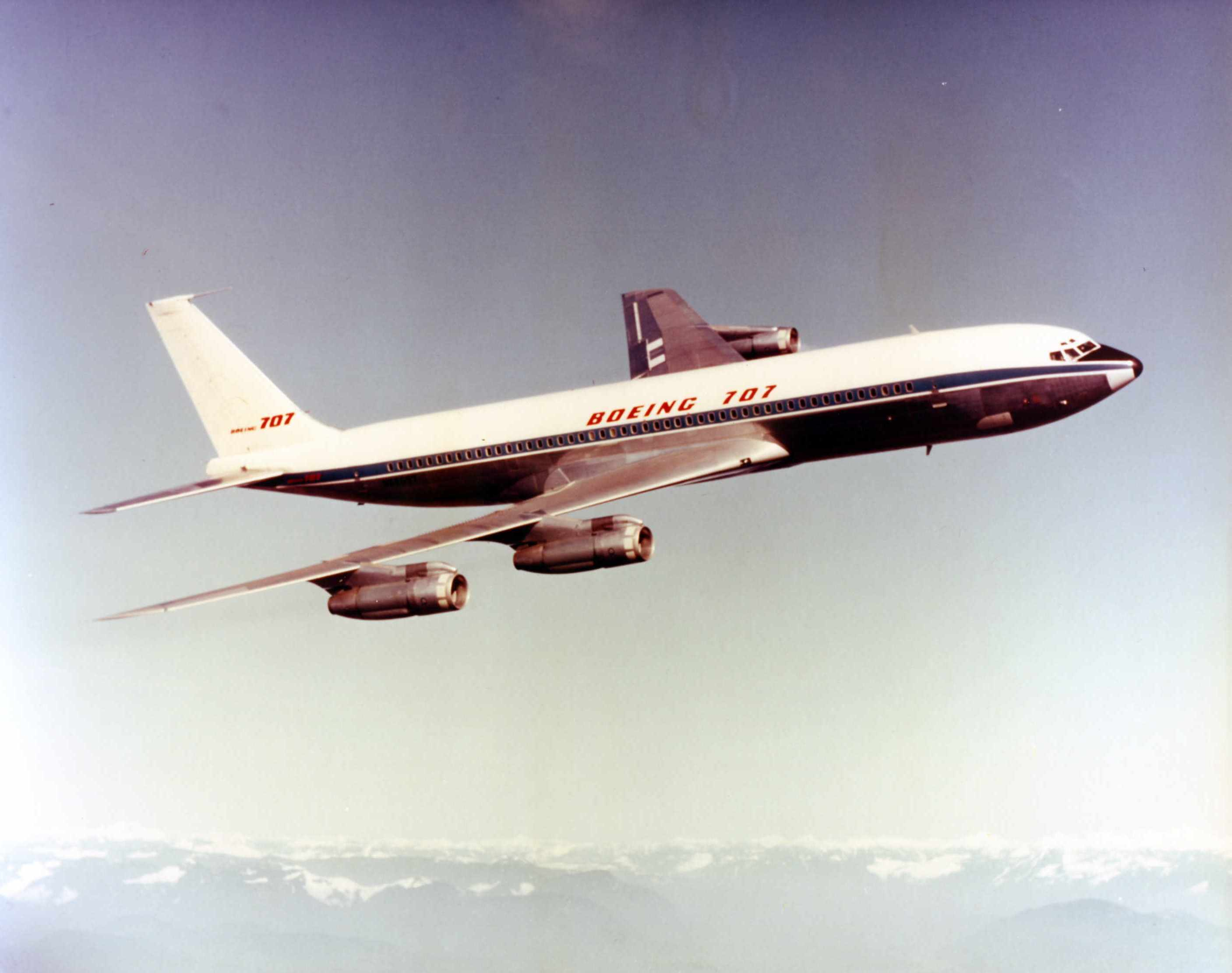 First flight on September 13, 1965 and delivered to LAN Airlines on December 20, 1969 and registered CC-CEB. Delivered to Chilean Air Force in September 1991 as FAC905. Converted in Phalcon AEW by Israel Aircraft Industries, returned to Chilean Air Force with tail number 904.